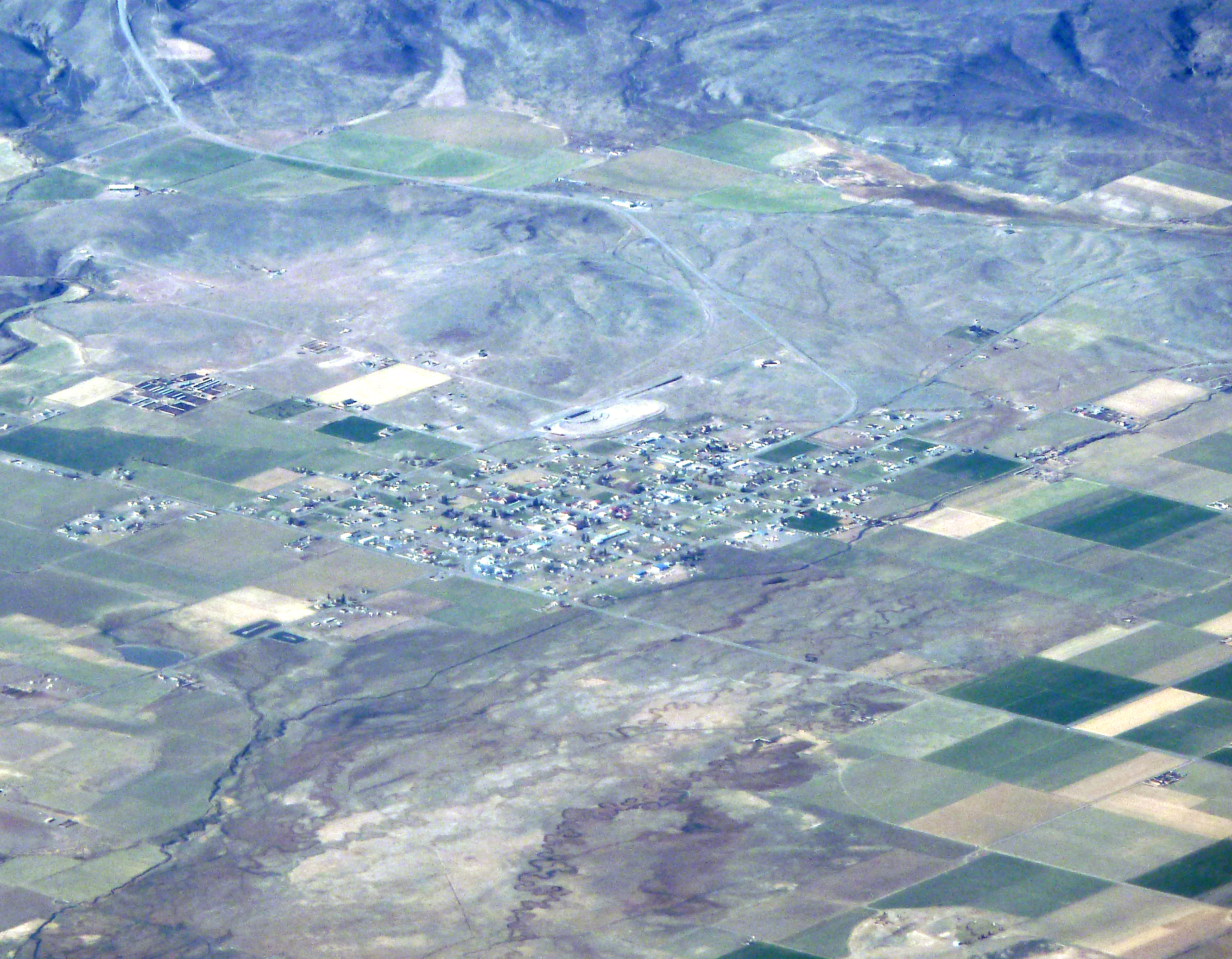 Aerial photograph of Loa, Utah, USA.